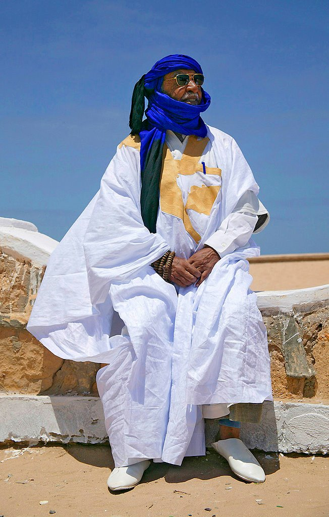 Old man from Tarfaya.